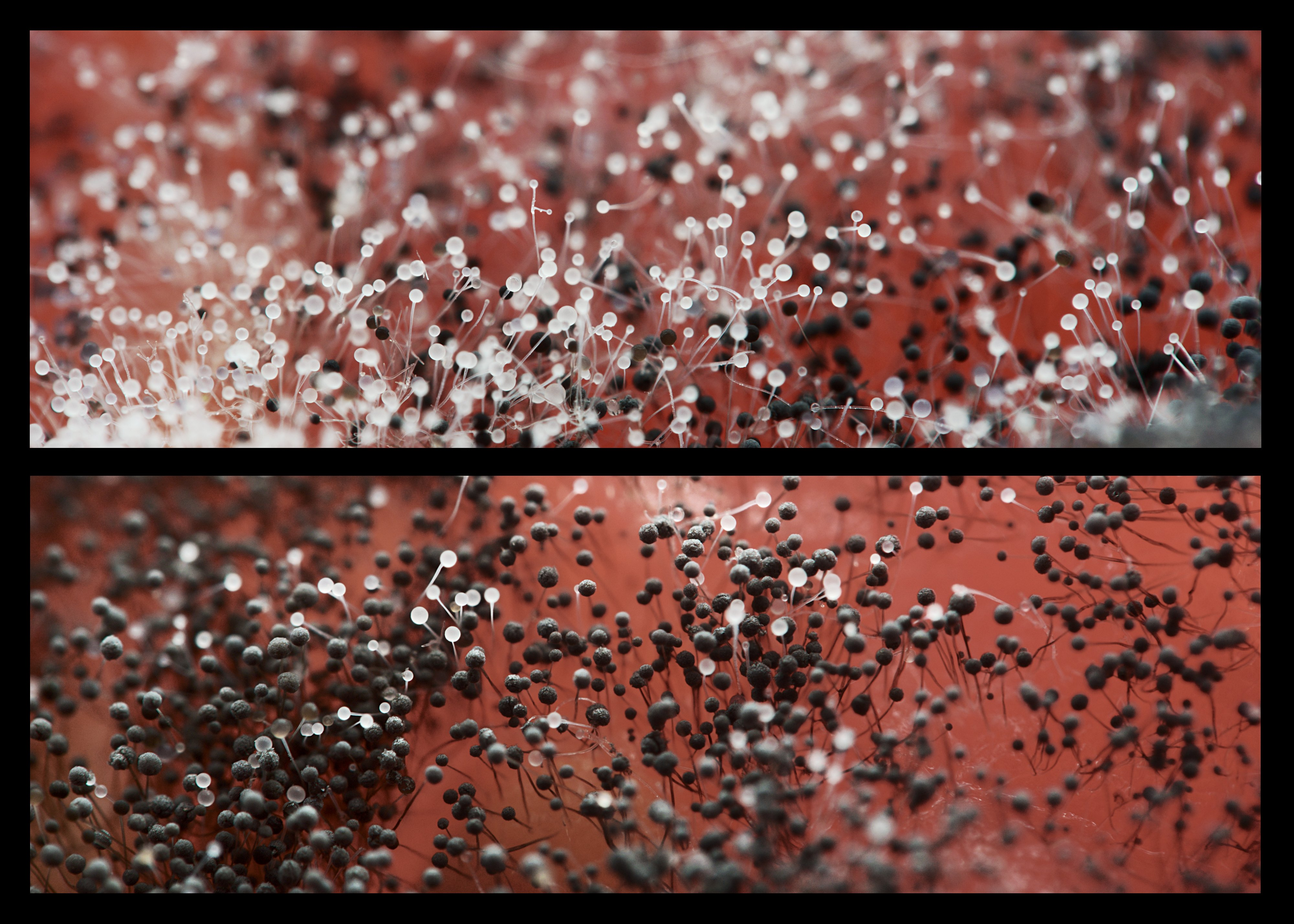 Aspergillus on a tomato.